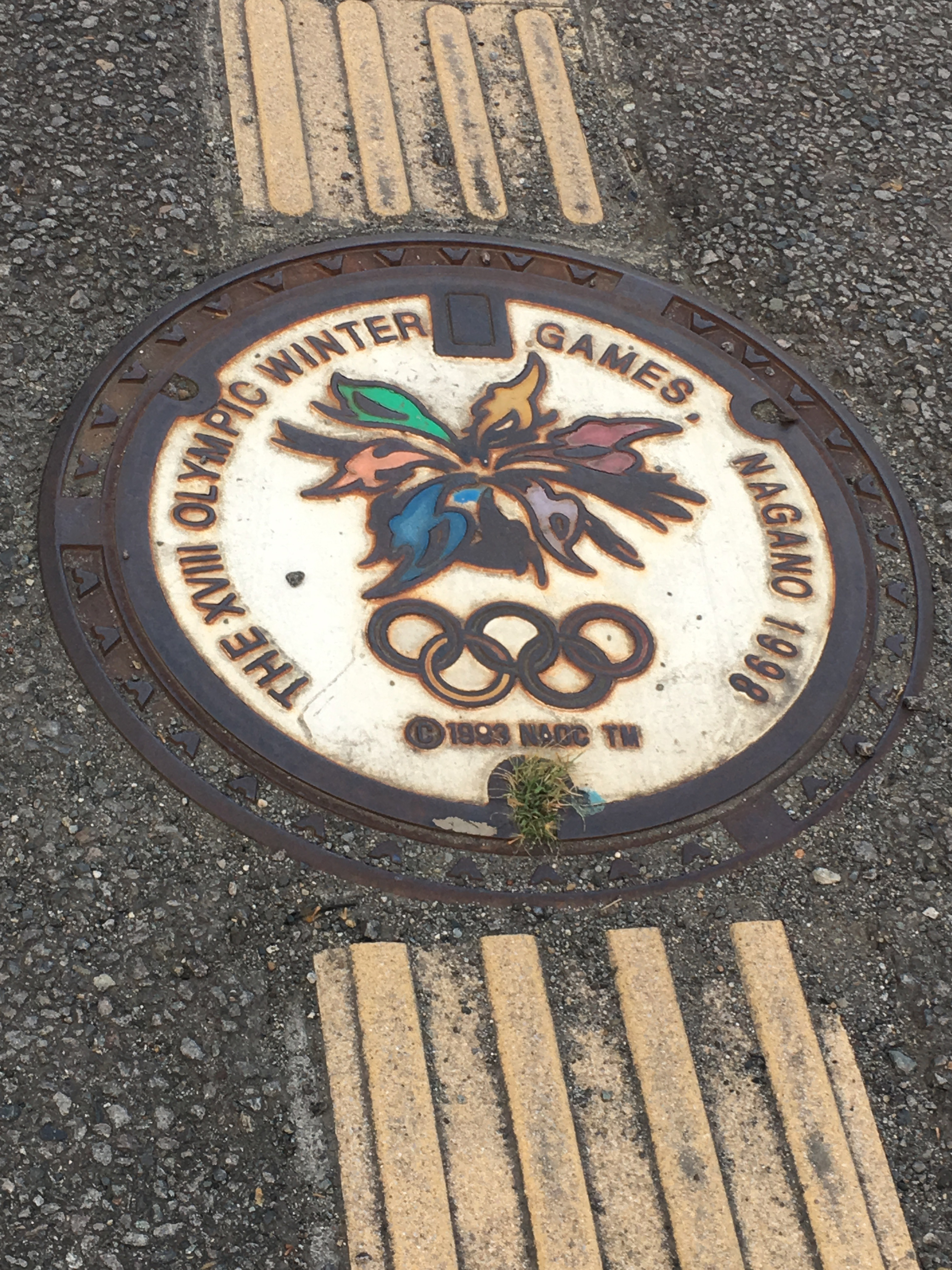 This is a photo of a stylized Nagao Olympics manhole cover with tactile paving in Nagano City.